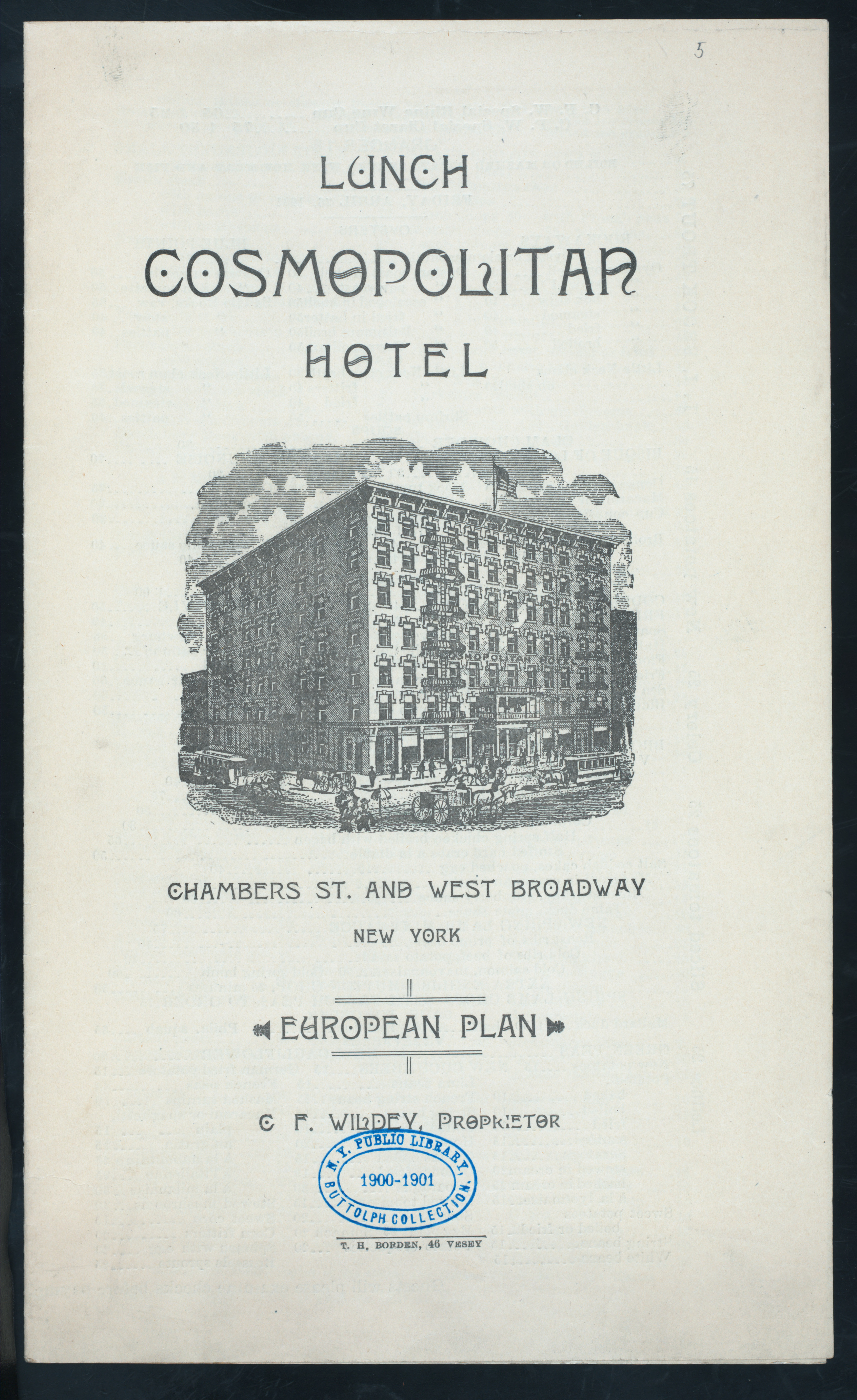 A LA CARTE MENU; INCLUDES PRICED WINE & LIQUOR LIST; PHOTO OF HOTEL ON COVER